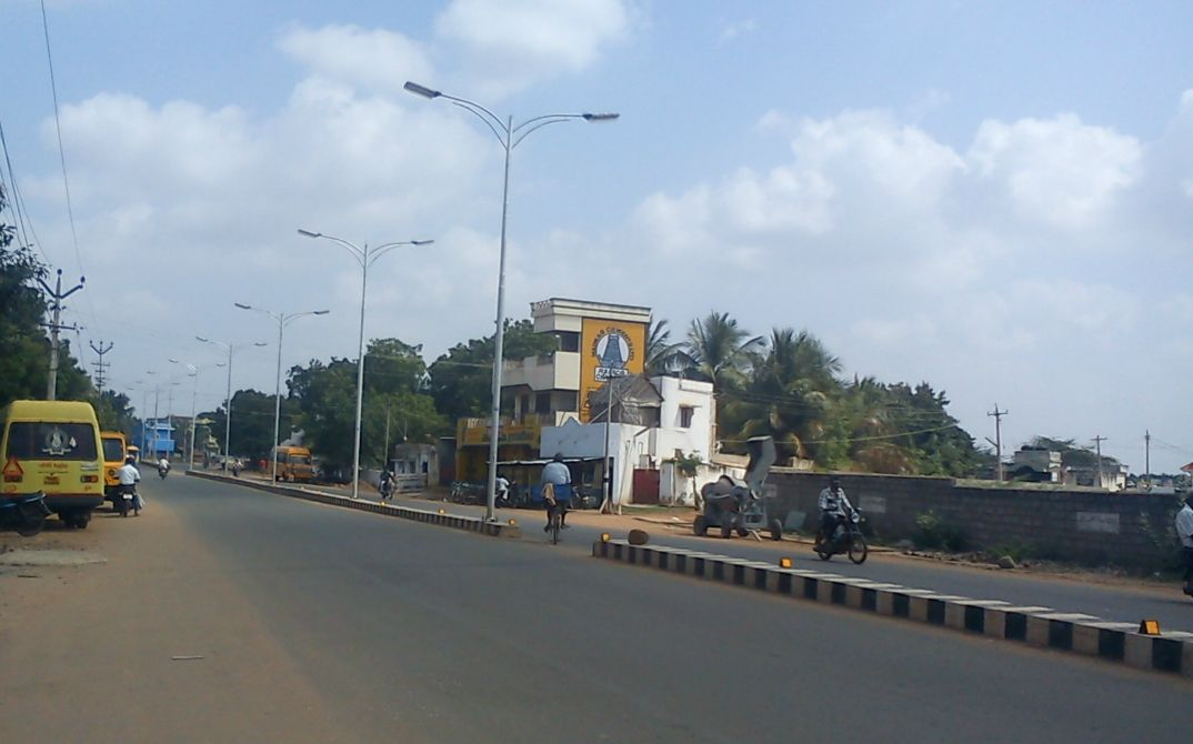 NH 85 Kochi-Madurai-Thondi Passing through Sivagangai